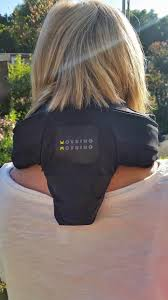 Hövding cykelhjälm